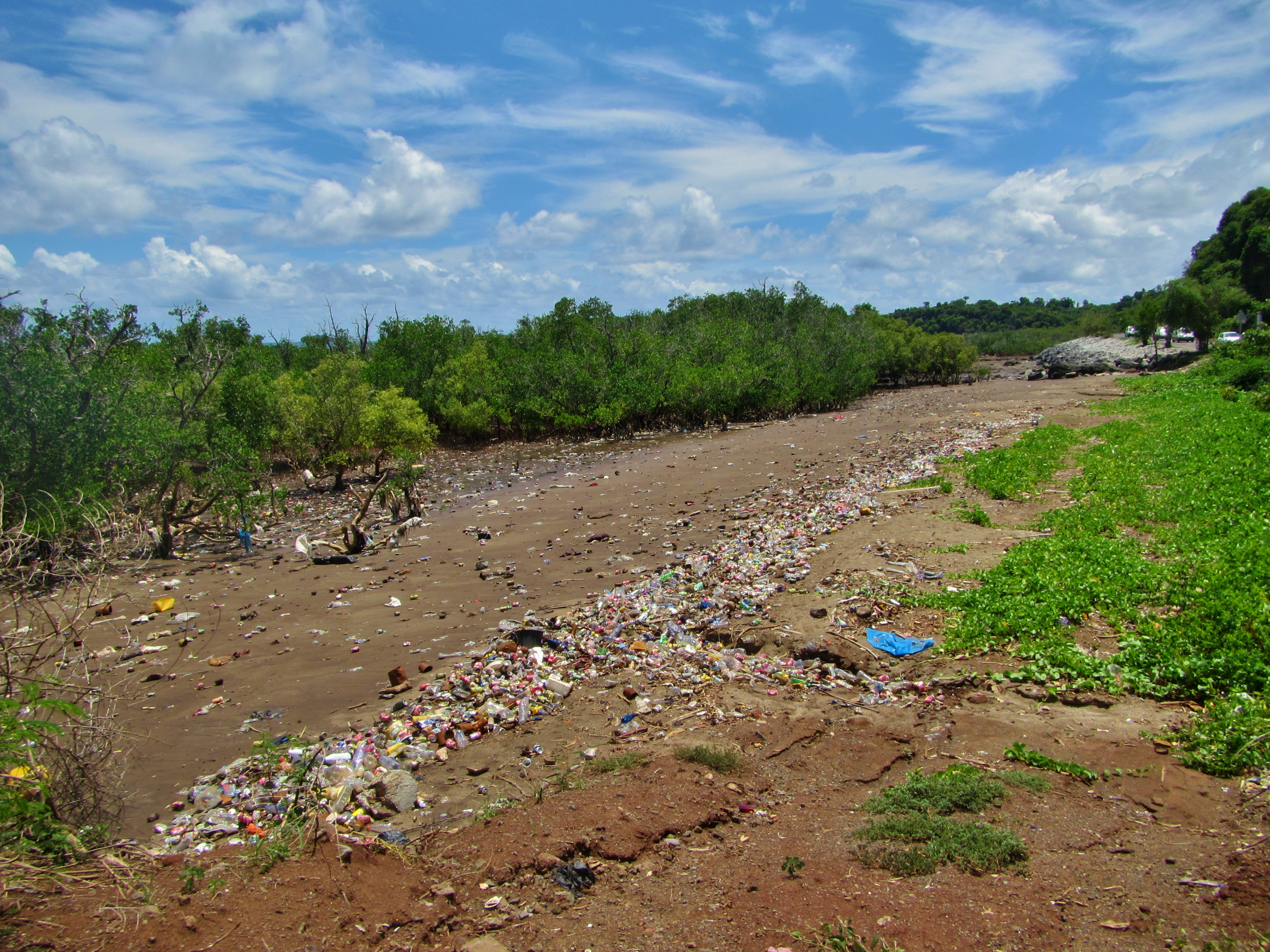 The beach at the back of the fringing mangrove in Majicavo, Mayotte (south-west Indian Ocean, French territory). Picture taken in January 2017 : many clean-ups have followed, but the state of Mayotte beaches is still worrying.